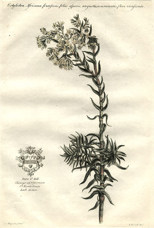 Cotyledon orbiculata (Syn. Cotyledon africana)